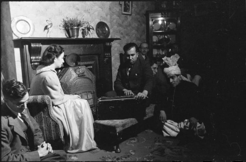 Muslims in Britain- Eid Ul Fitr Celebrations, 1941 Following the Eid ul Fitr ceremony at Woking Mosque, the celebrations continue with music and singing by the fireplace in the living room of the home of one of the Muslims present at the ceremony.